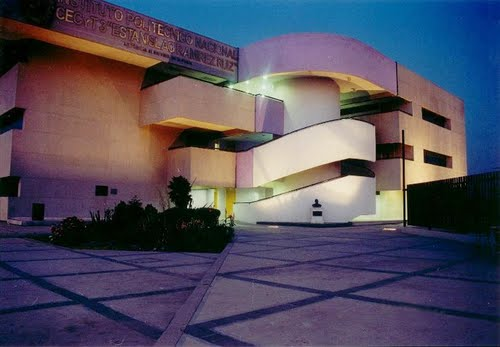 CECYT 3